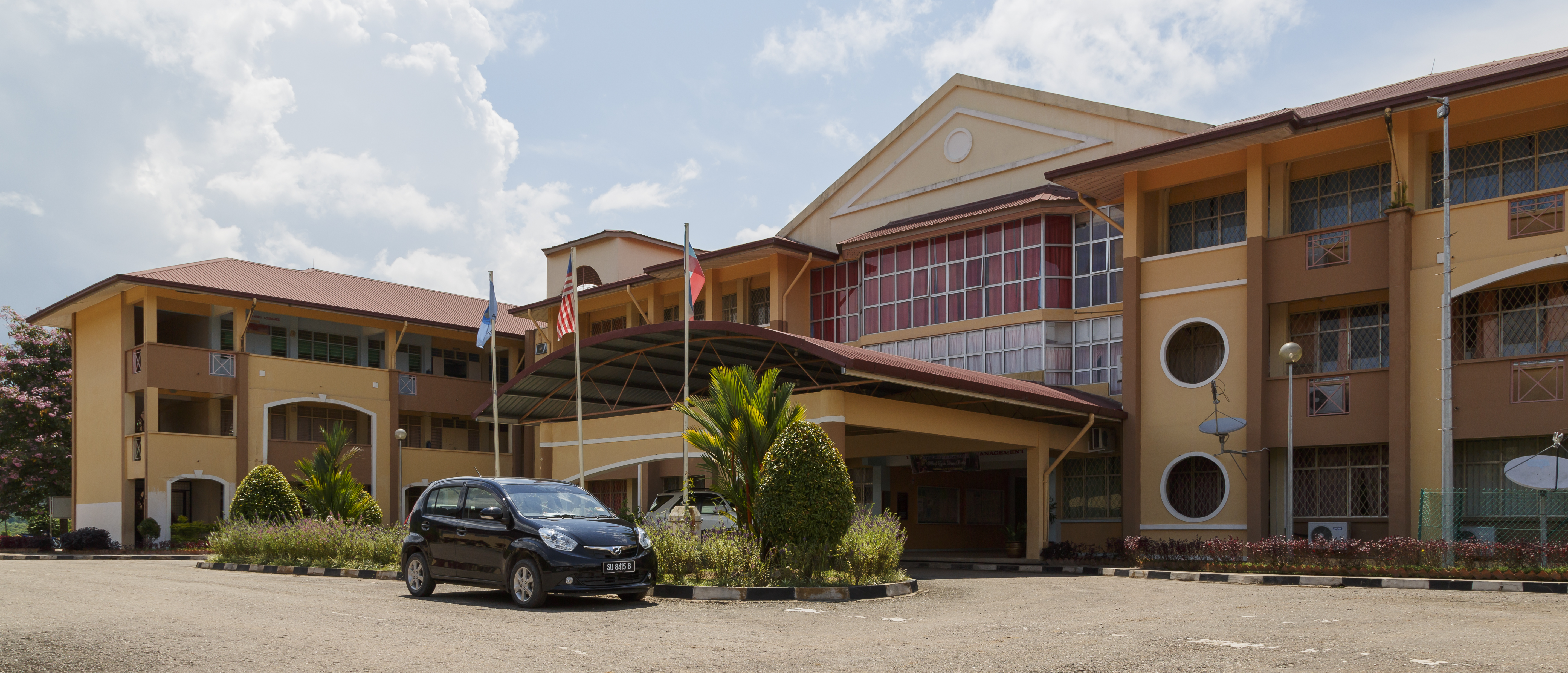 Sapulut, Sabah: SMK Sapulut